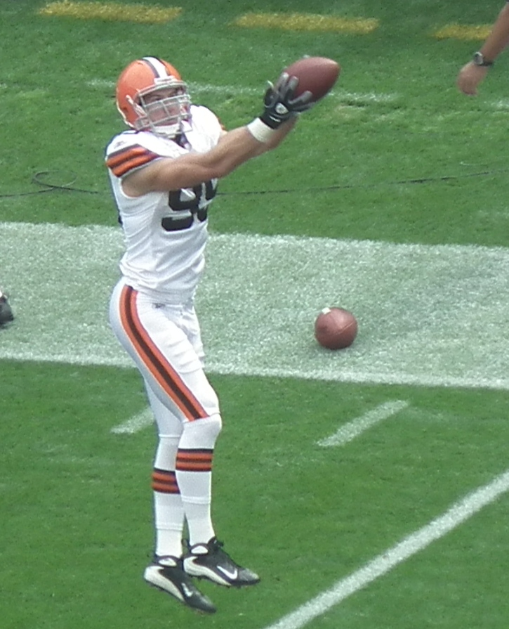 Fujita with the Browns